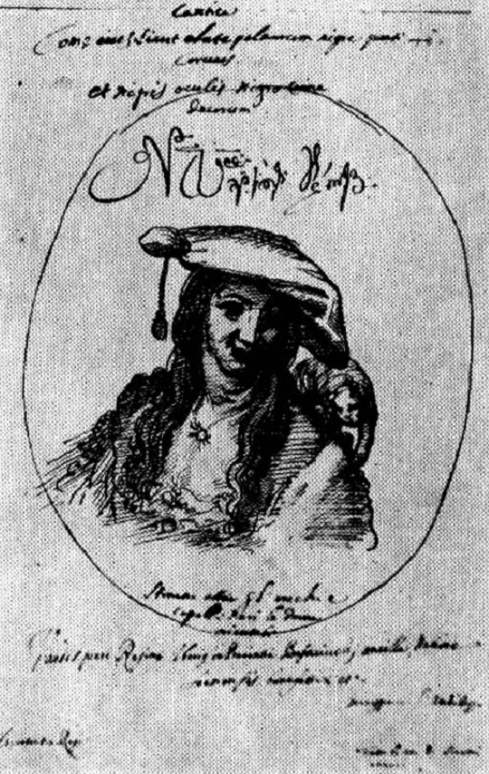 Darejan, Queen of Imereti. A sketch by the Catholic missionaire Don Cristoforo De Castelli